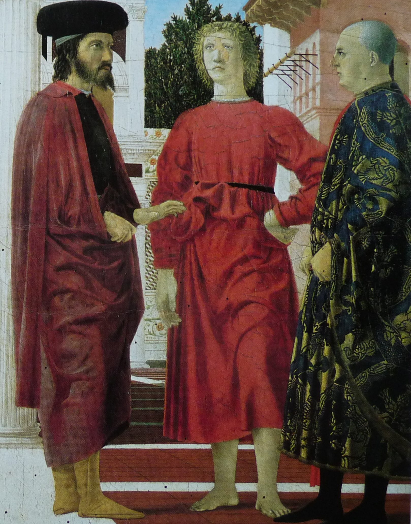 Piero della Francesca: Flagallation of Christ, detail